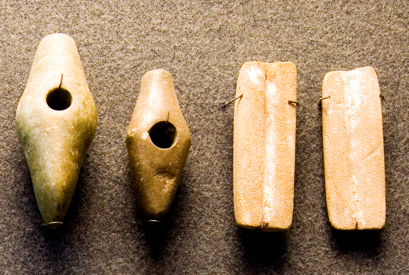 Objects found during excavations